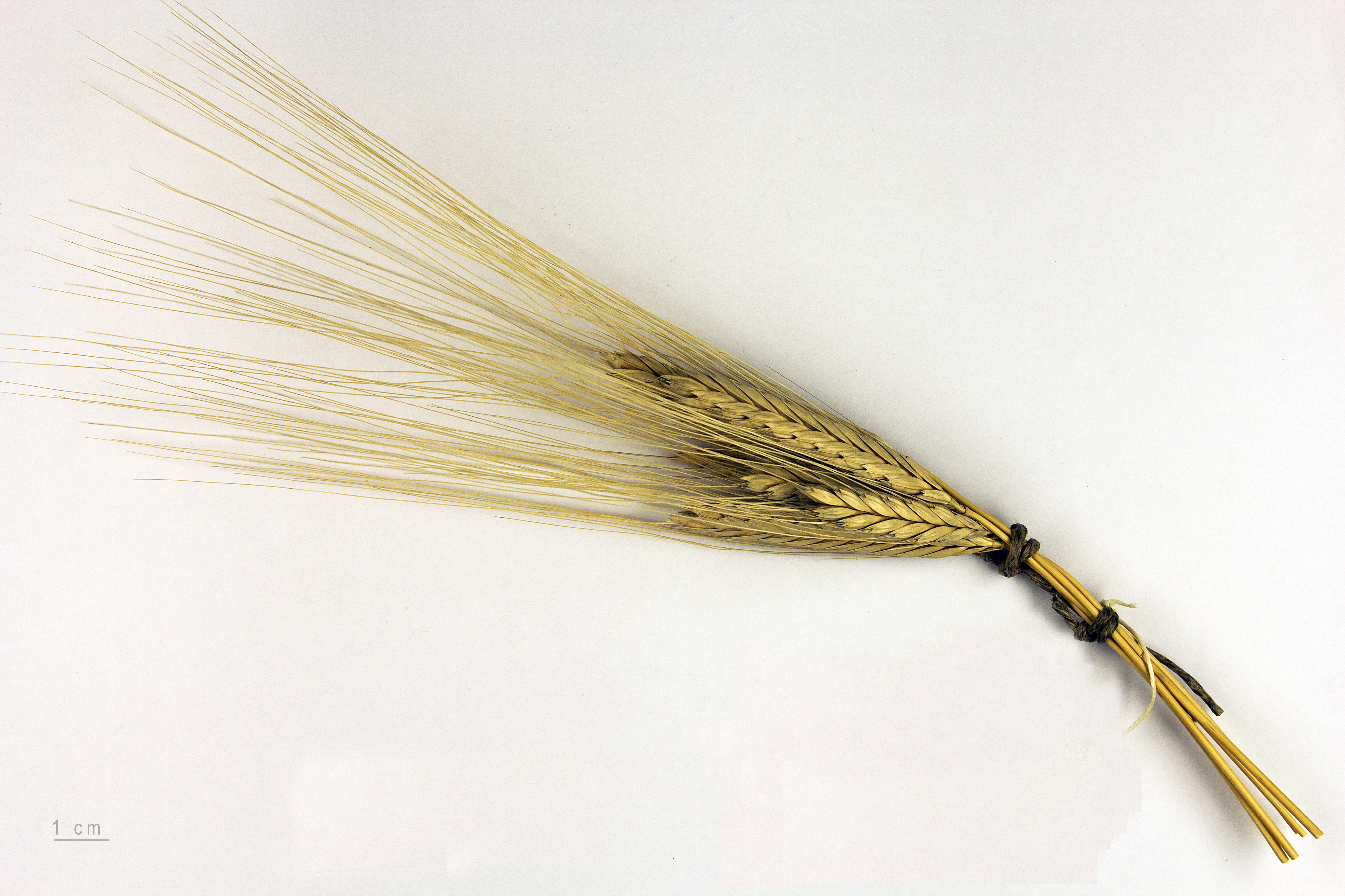 Triticum monococcum, Einkorn wheat, seeds